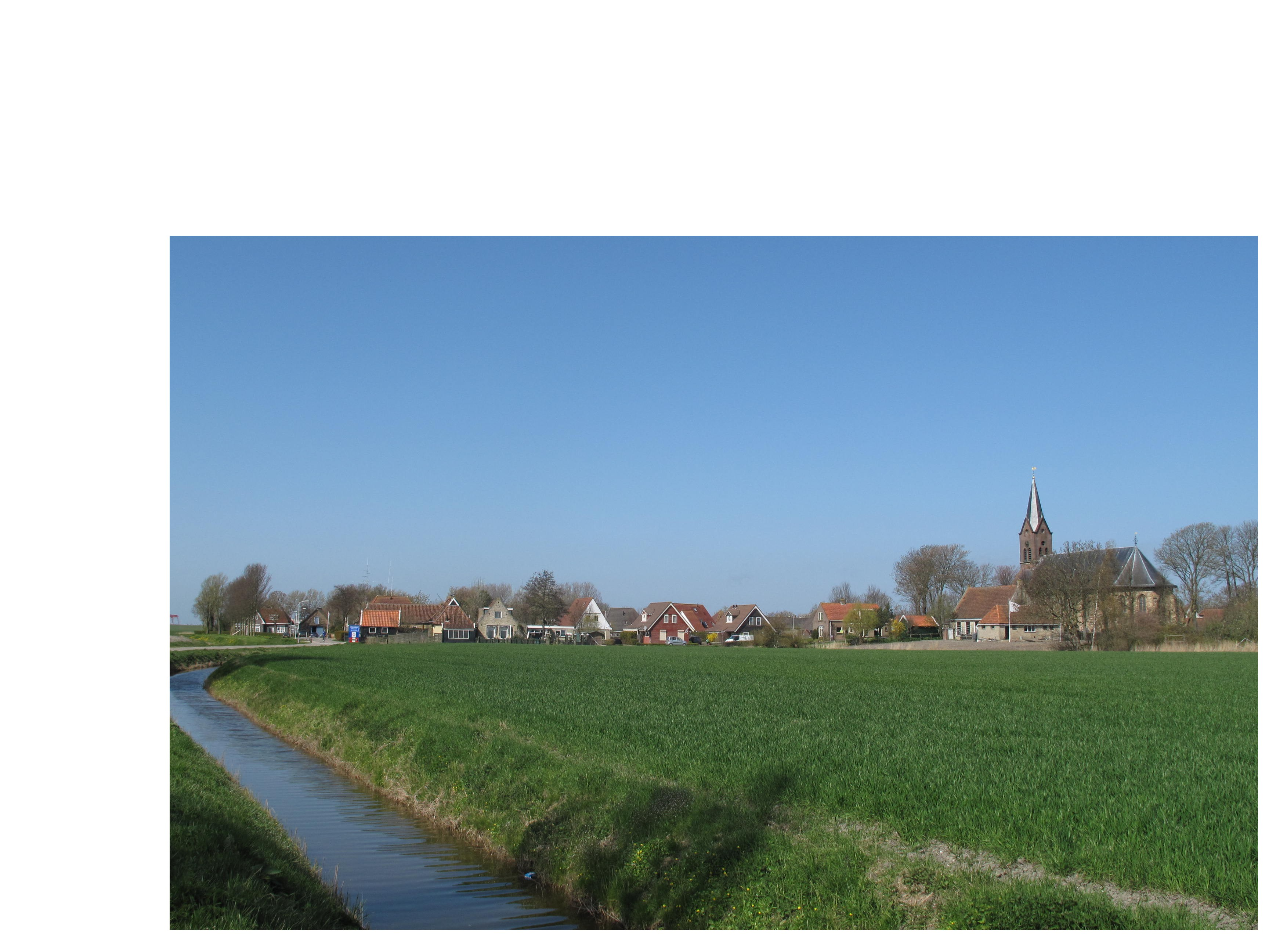 Wijnaldum, view to the village